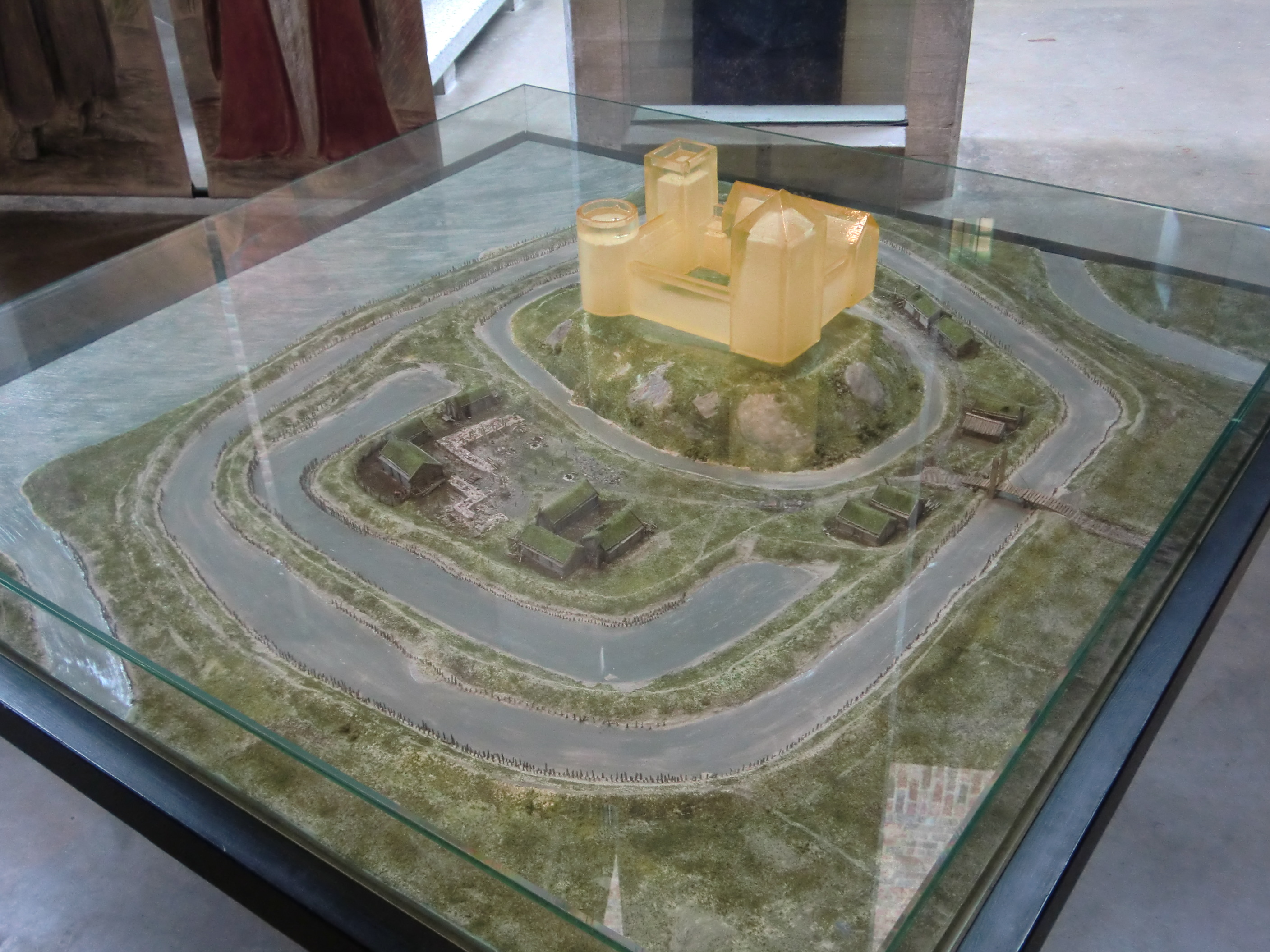 Reconstruction of the medieval castle Lödösehus, located at the river Göta älv in Sweden. View from southeast.Model from Lödöse Museum.